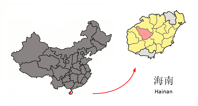 Location of Baisha County (pink) and the subdivisions directly administered by the province (yellow) within Hainan province of China Map drawn in september 2007 using various sources, mainly : Hainan Counties map from